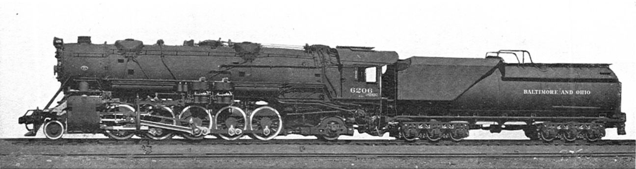 2-10-2 Freight Locomotive, Baltimore & Ohio R.R., USA Photo: Baltimore & Ohio R.R.